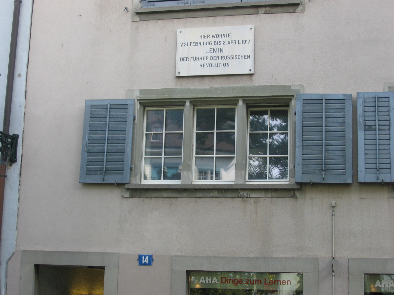 This picture shows the house where Lenin wrote the Russian Revolution in present day Zurich, Switzerland. (Translates into 'Here lived from February 21, 1916 to April 2, 1917, Lenin the Leader of the Russian Revolution.')